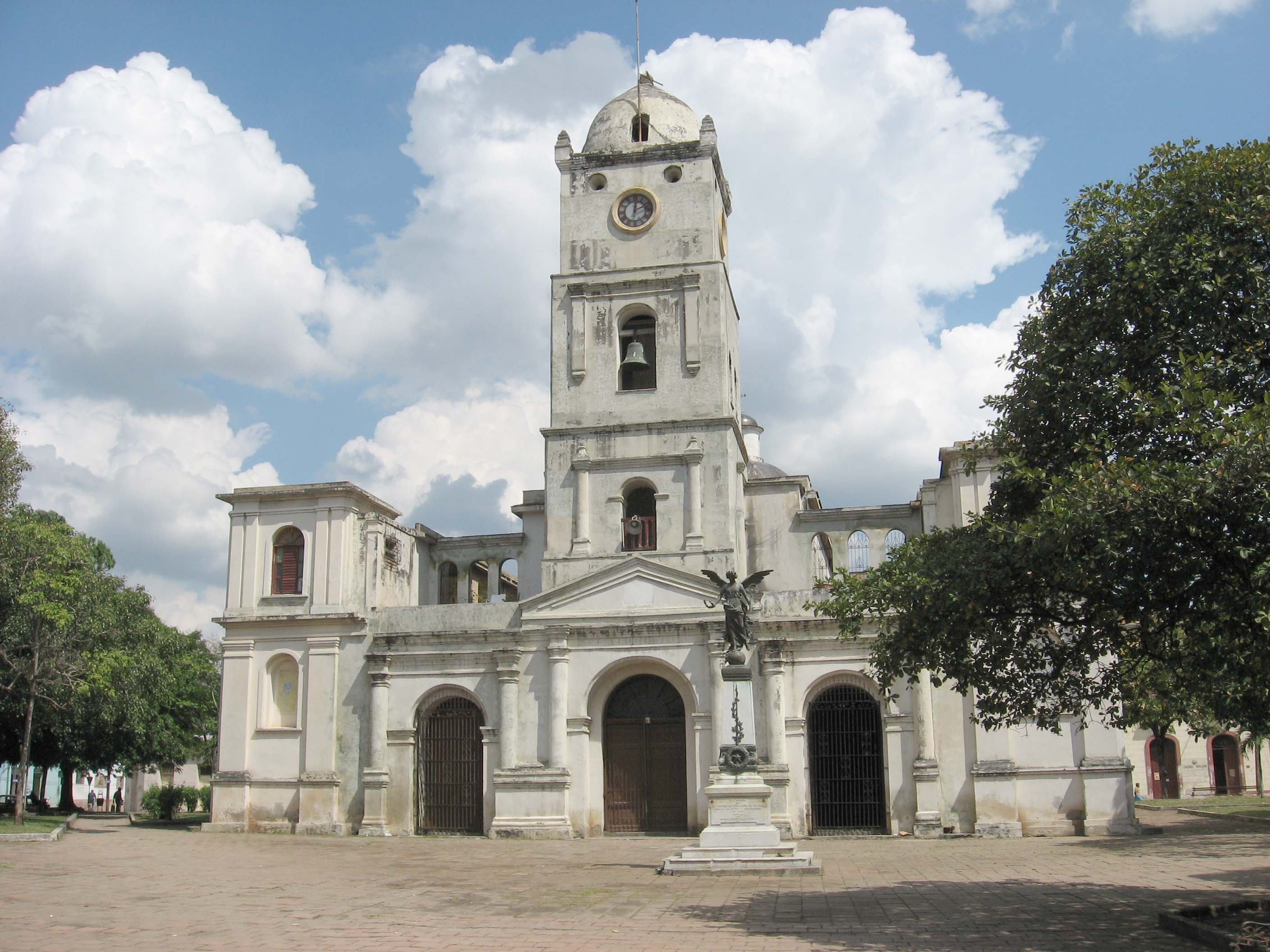 Holguín (Cuba): San José Church in San José Park. Made by: KatKiller 07:34, 17 February 2007 (UTC)